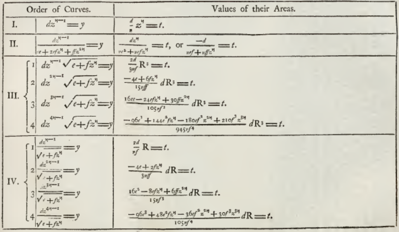 Image from method of fluxions in Catalan